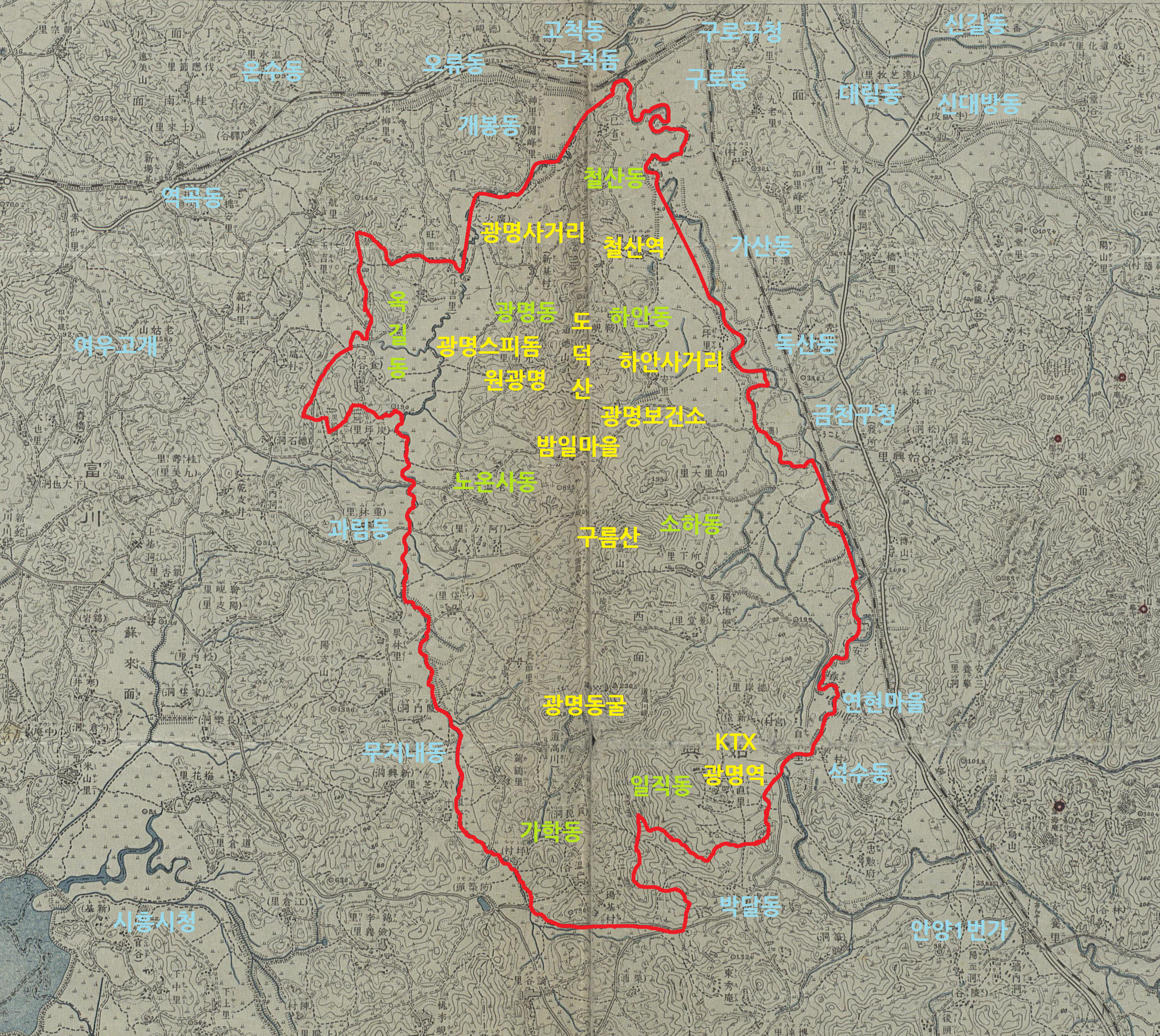 A map of Gwangmyeong circa 1919 (Original map produced by the Japanese Colonial Government of Korea)